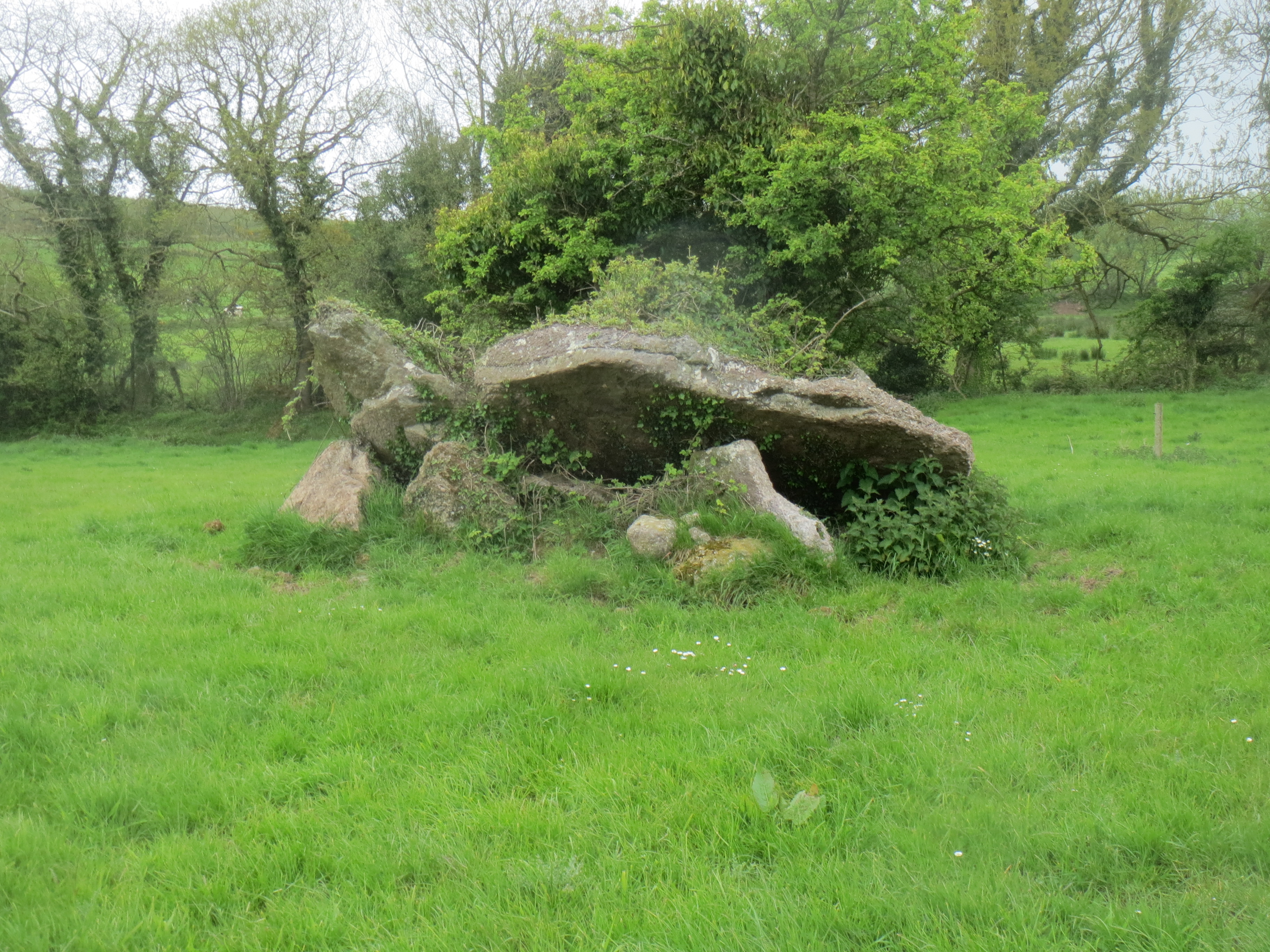 Tubbrid Portal Tomb